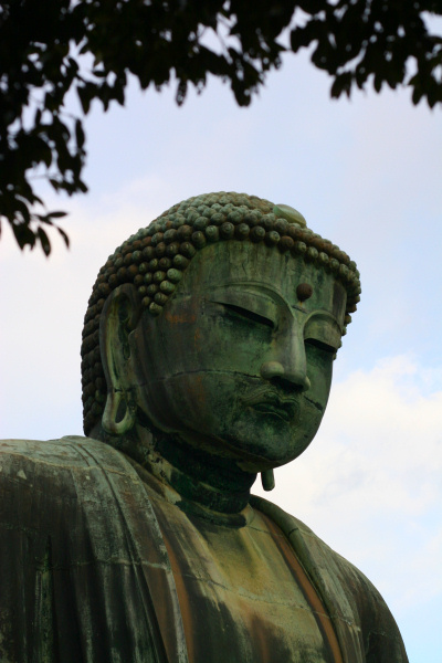 Angled profile of Daibutsu at Kamakura, Kanagawa Prefecture, Japan. January 2006. I took this photograph. Canon EOS 20D, Canon EF 28-135mm f/3.5-5.6 IS USM f/5.6, 1/500s